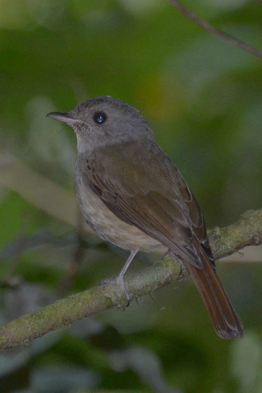 Matinan blue flycatcher (Cyornis sanfordi) at Mount Ambang Nature Reserve, North Sulawesi.